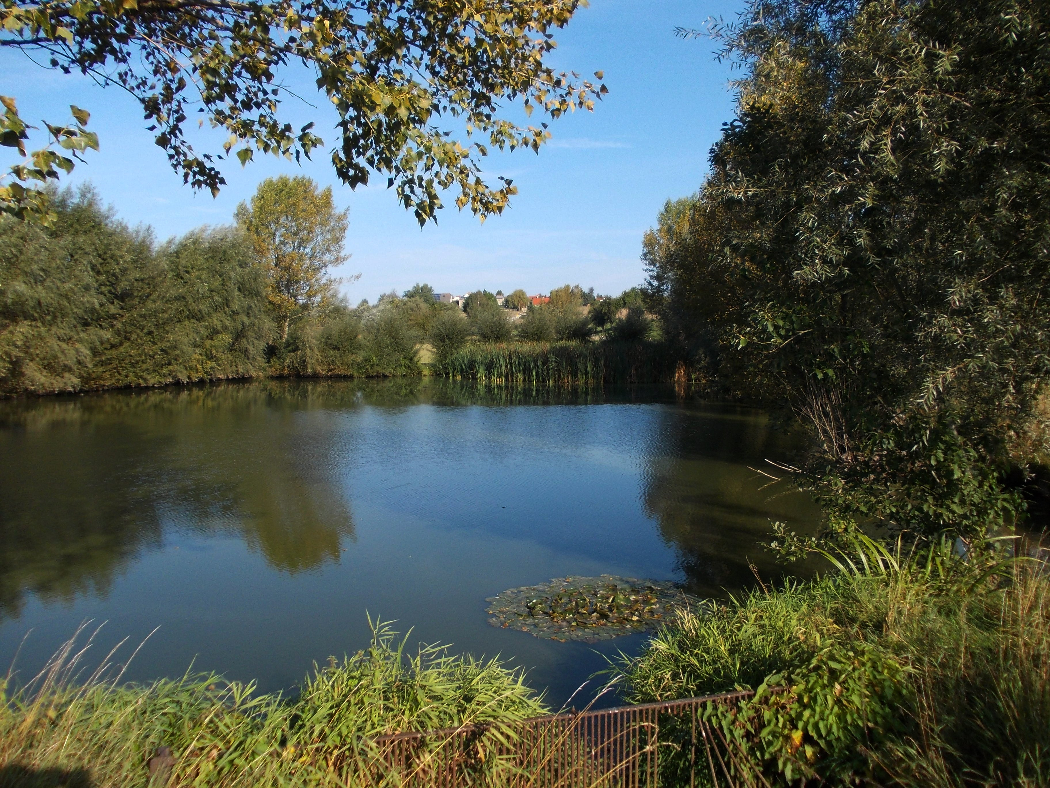 Pond south of Wildenbörten (district of Altenburger Land, Thuringia)